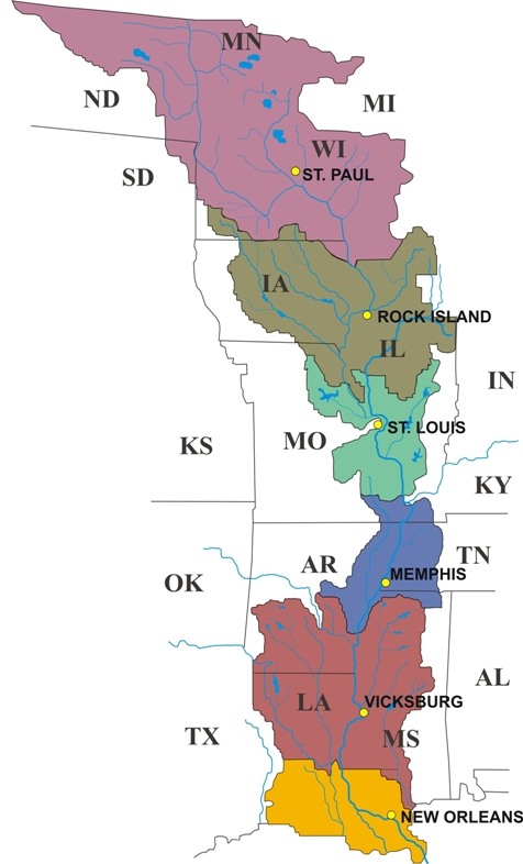 This depicts the areas of responsibility for the six Districts which comprise the Mississippi Valley Division of the US Army Corps of Engineers. Current as of September 2014.